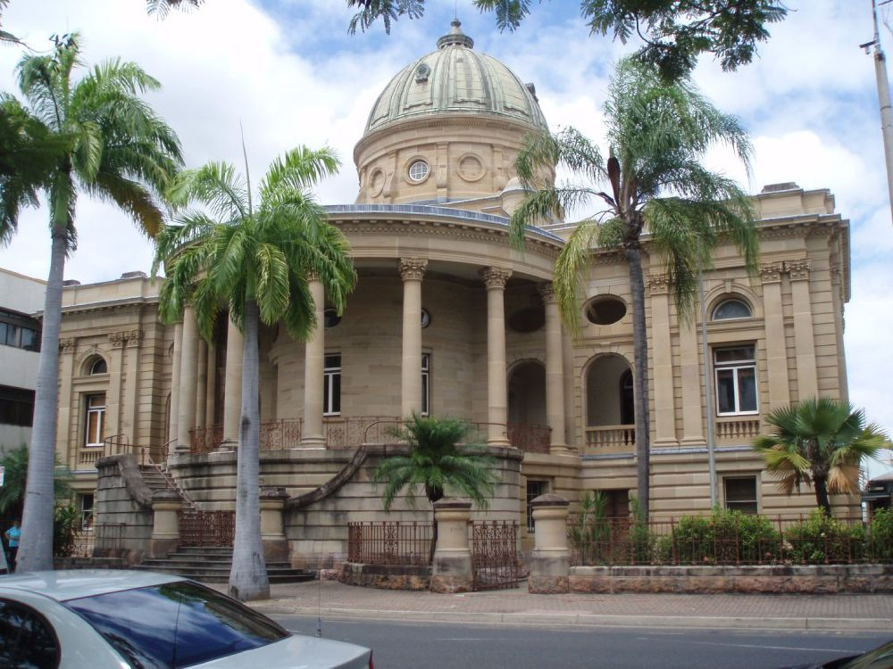 Customs House Rockhampton, from NE, Quay Street (2009)